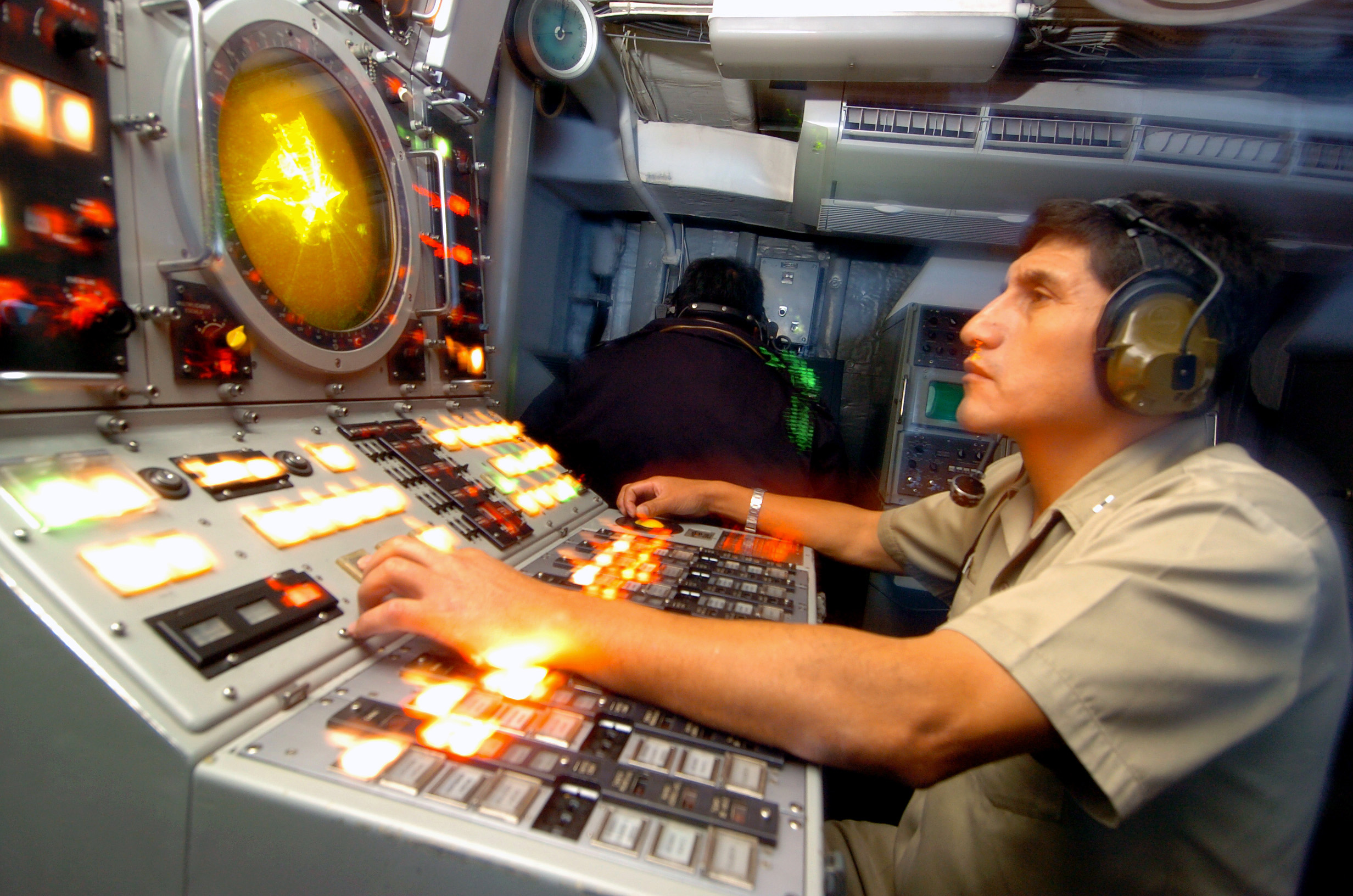 060720-N-5169H-041 Pacific Ocean (July 20, 2006) - Arturo Gonzales, a crew member aboard the Lupo-Class Peruvian Navy Frigate Mariategui (FM-54) stands watch inside the Combat Information Center during Exercise Rim of the Pacific (RIMPAC) 2006. Exercise Rim of the Pacific (RIMPAC) 2006. Eight nations are participating in RIMPAC, the world's largest biennial maritime exercise. Conducted in the waters off Hawaii, RIMPAC brings together military forces from Australia, Canada, Chile, Peru, Japan, the Republic of Korea, the United Kingdom and the United States. "This is a World Wide Web site for official information about the United States Navy. It is provided as a public service by the Naval Media Center. The purpose is to provide information and news about the U.S. Navy to the general public. "All information on this site is public domain and may be distributed or copied unless otherwise specified. Use of appropriate byline/photo/image credits is requested."